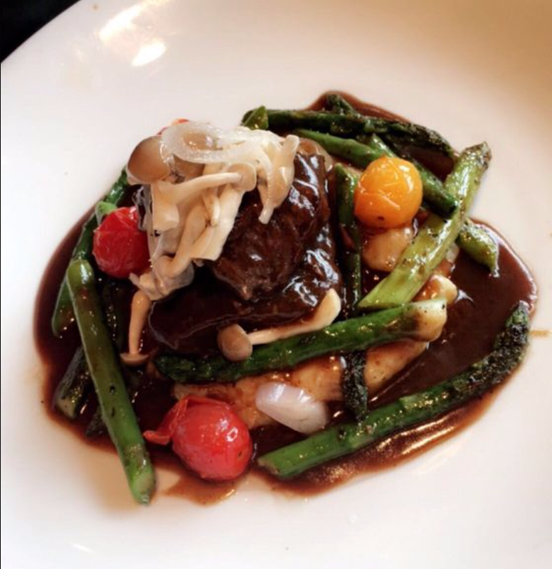 Short Ribs offered on the Full Menu